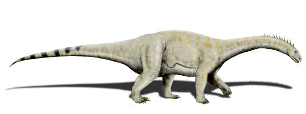 Vulcanodon